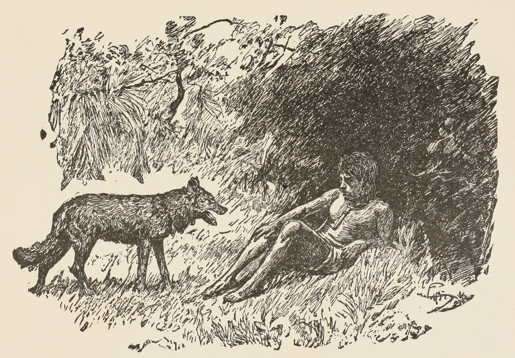 "'Wake, little brother; I bring news.'"